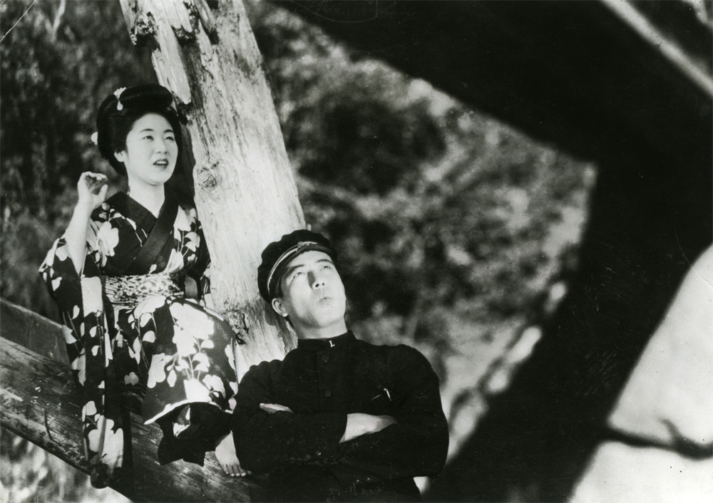 Kinuyo Tanaka and Den Obinata in Izu no odoriko (1933)